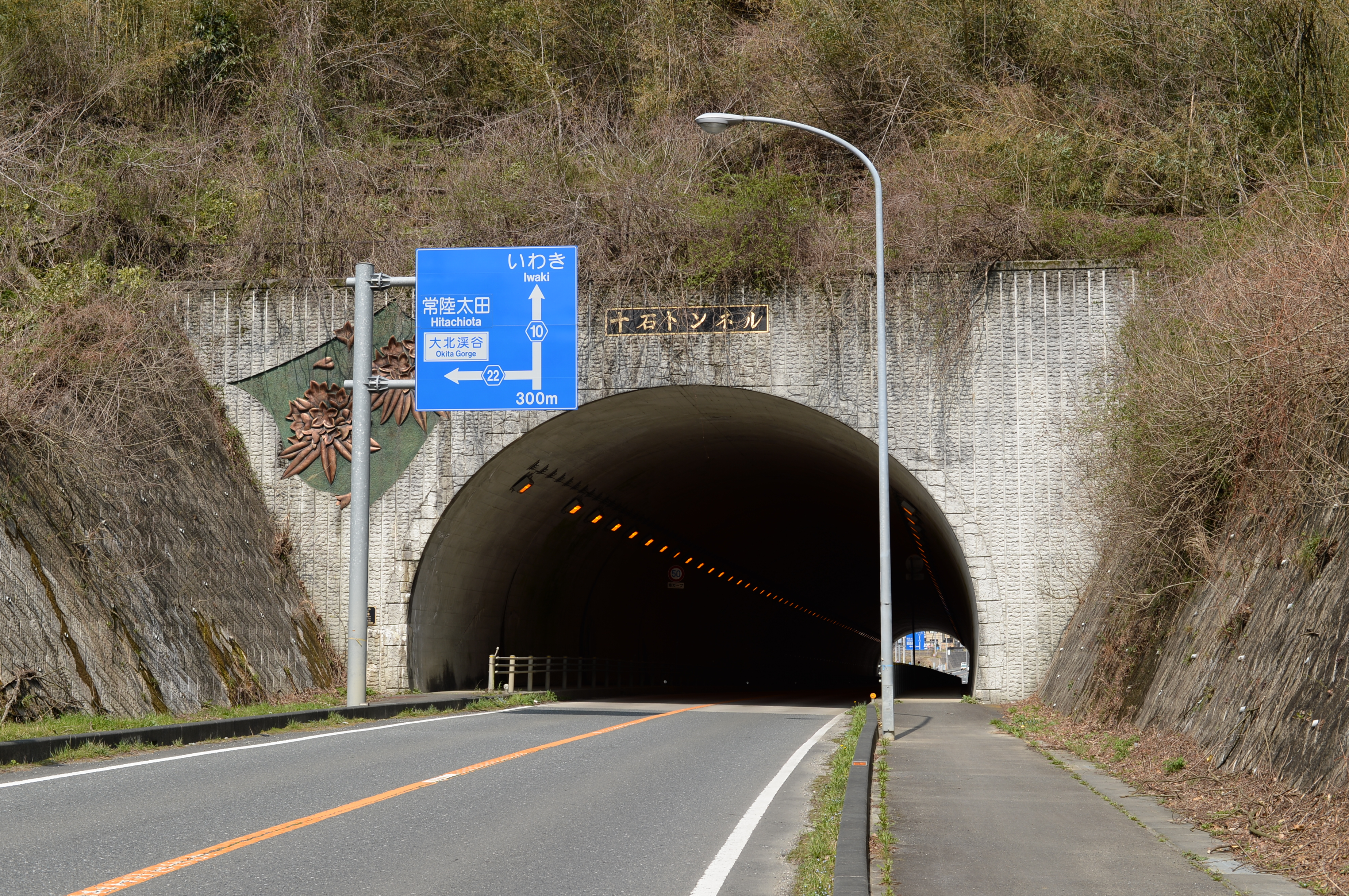 Jukkoku Tunnel on the Ibaraki Prefectural Road Route 10